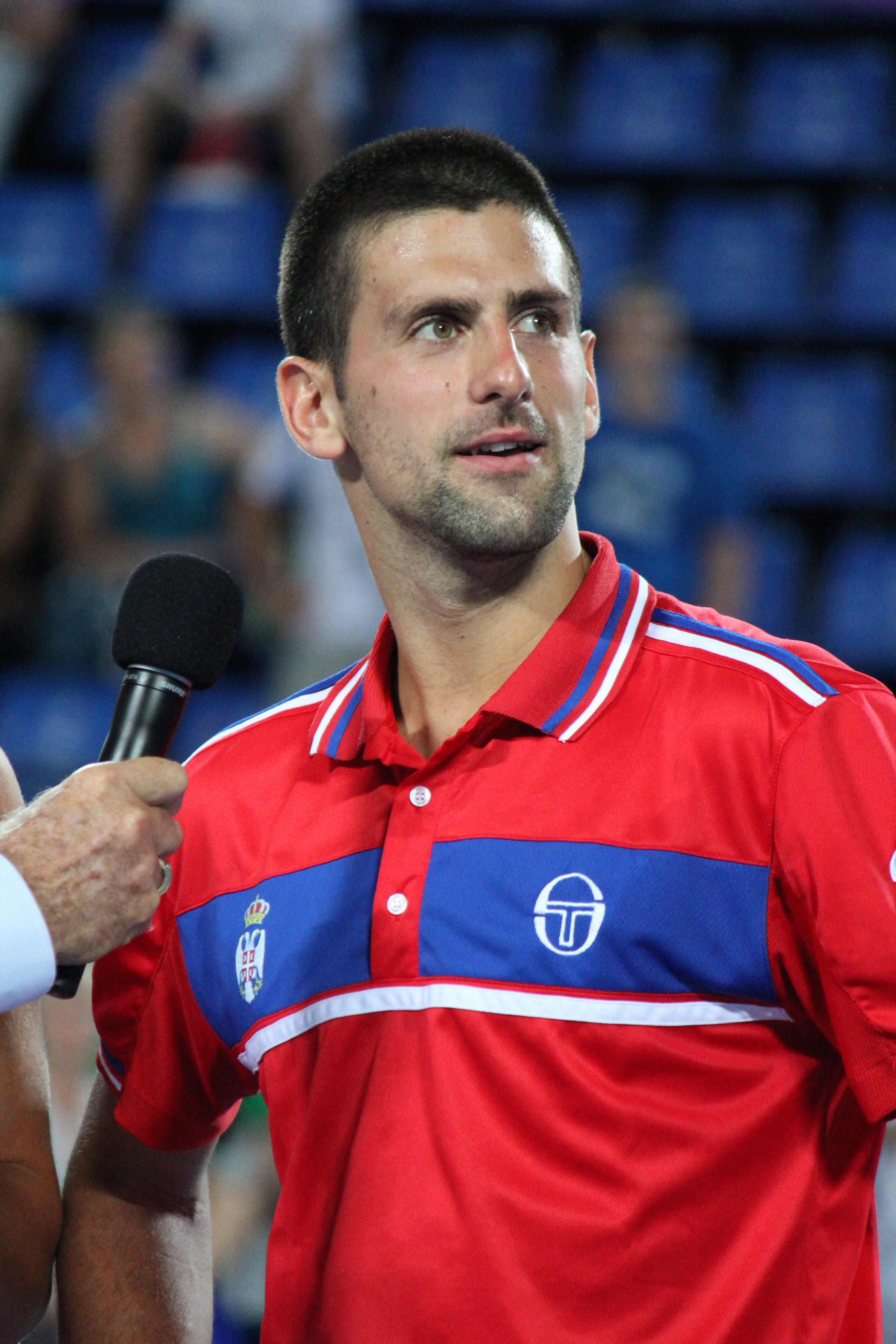 Novak Djokovic was interviewed after winning the mixed double match with Ana Ivanovic on 2011 Hyundai Hopman Cup XXIII in Perth, Australia